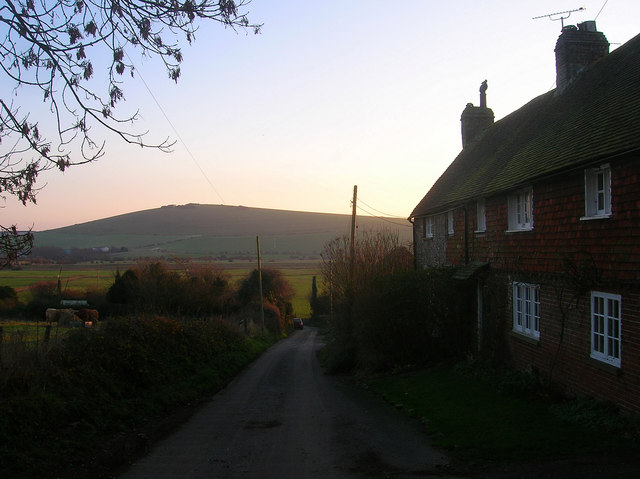 Barn Cottage and Rock Cottage Barn Cottage is the nearer of the two. Looking down the southern lane of the village before it turns northwards to the village green. Southease was once a much larger village but has shrunk to little more than 30 people today. Beyond is the Ouse flood plain with Itford Hill on the far side.